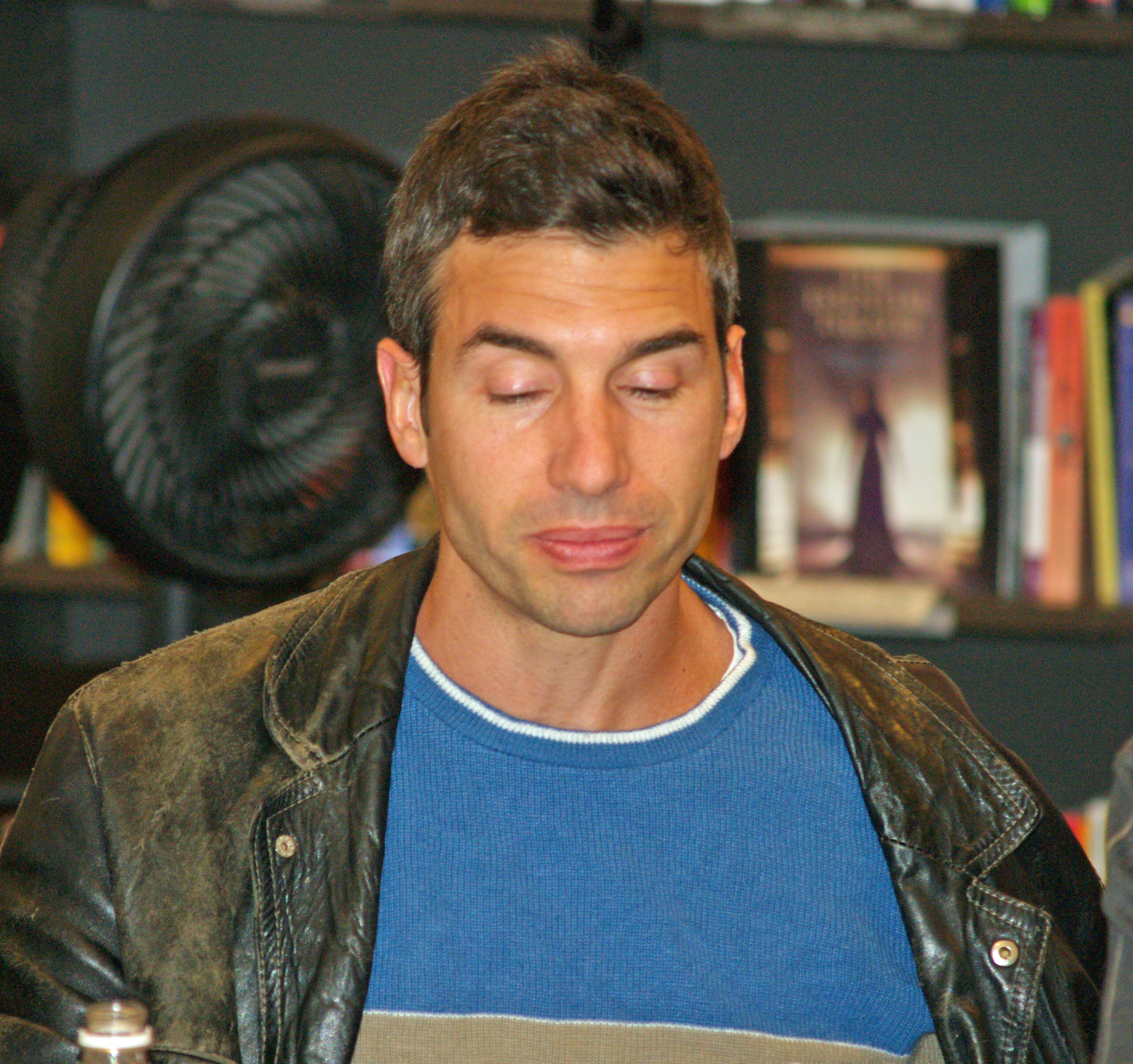 Paul Dinello by David Shankbone